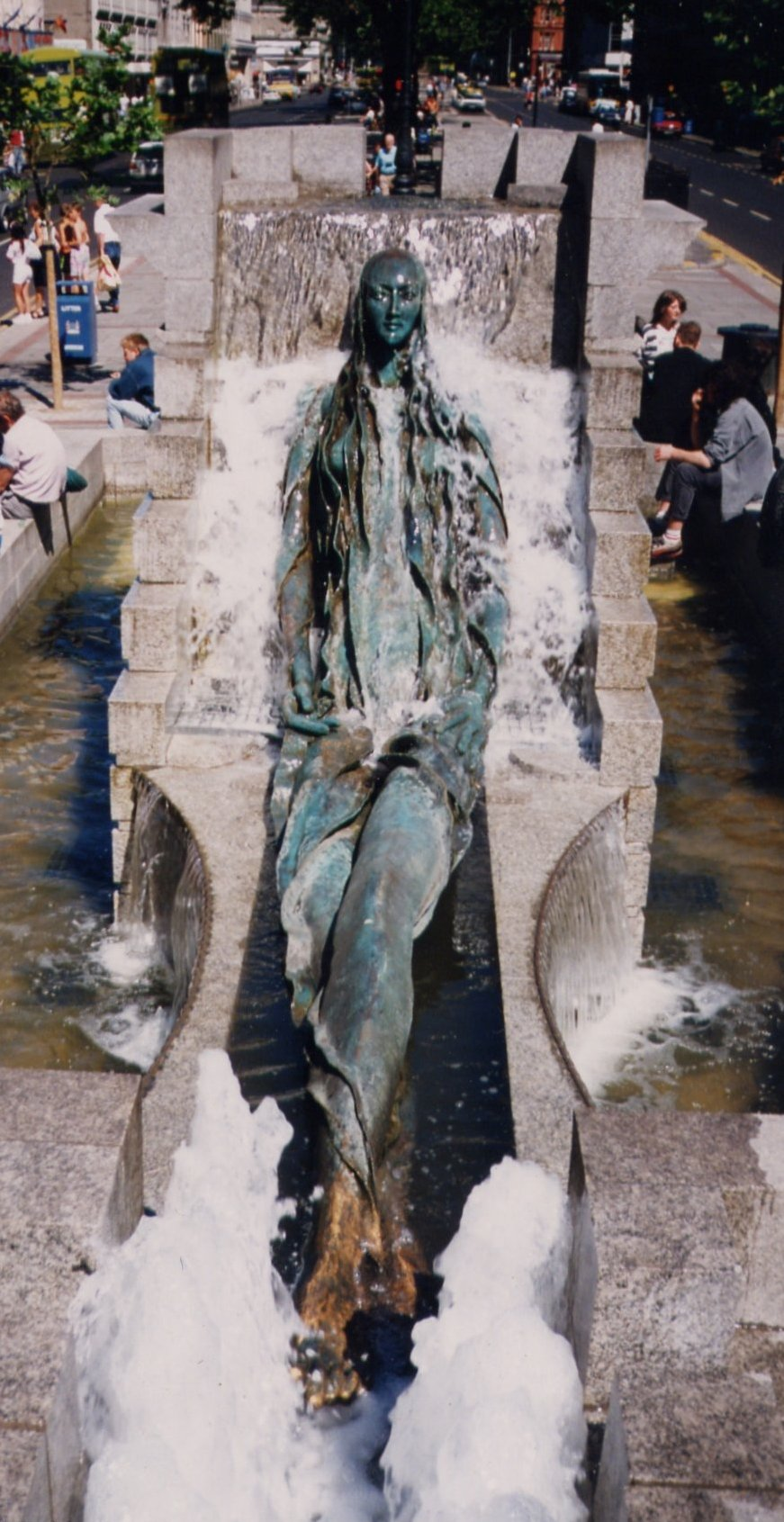 Anna Livia Plurabelle, representation of River Liffey. Fountain in O'Connell Street, Dublin, Ireland.